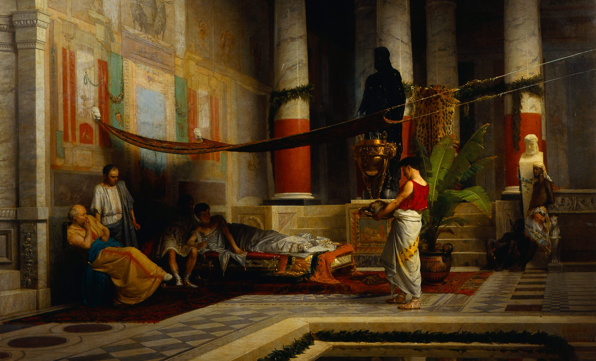 Poppea Brings the Head of Octavia to Nero Giovanni Muzzioli - 1876 Private coll.